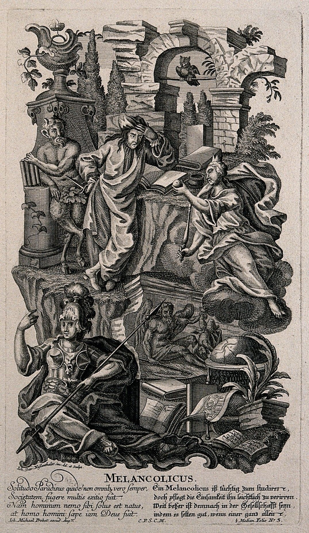 A depressed scholar surrounded by mythological figures; representing the melancholy temperament. Etching by J.D. Nessenthaler after himself, c. 1750. Iconographic Collections Keywords: Johann David Nessenthaler